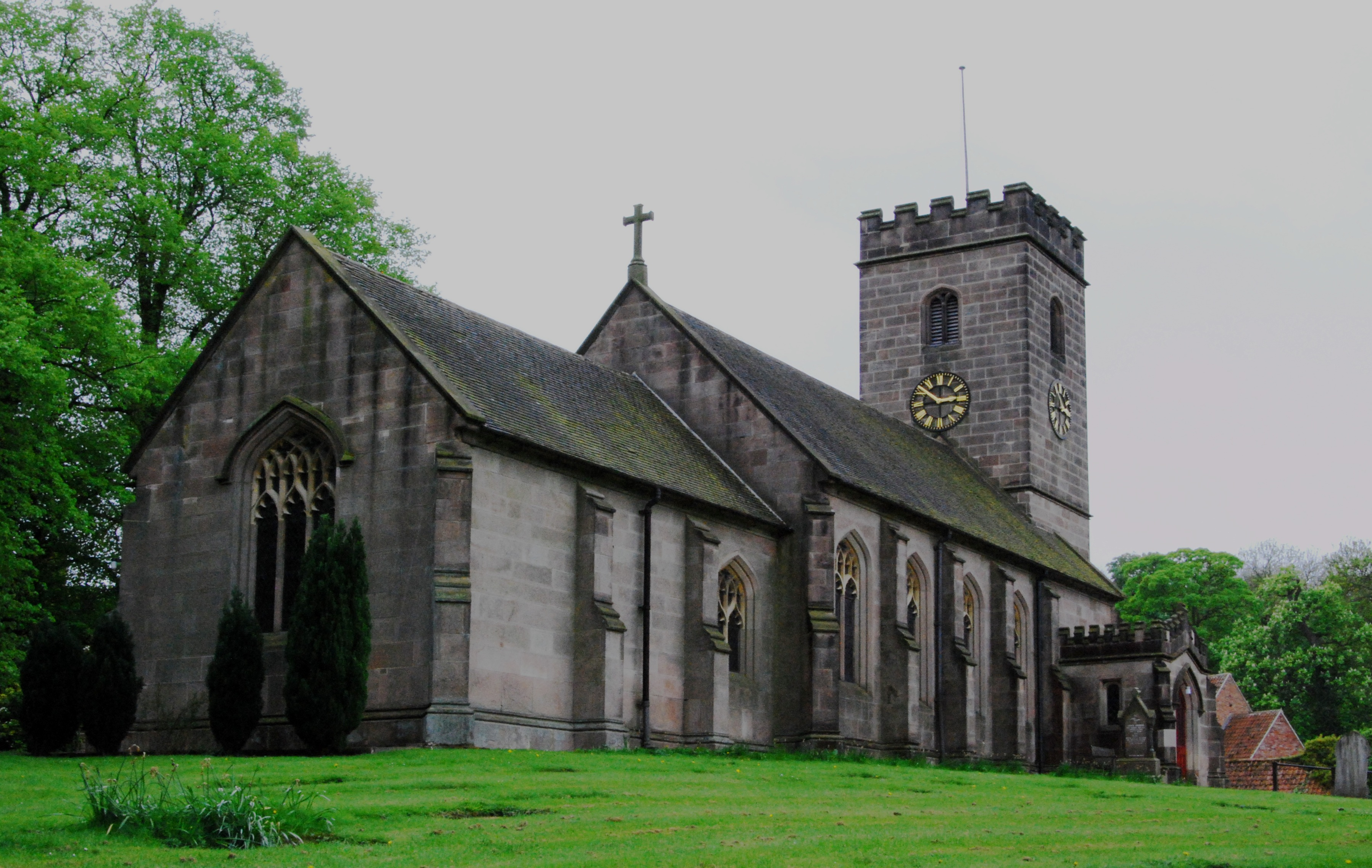 St John the Babtist's Church Old Dalby